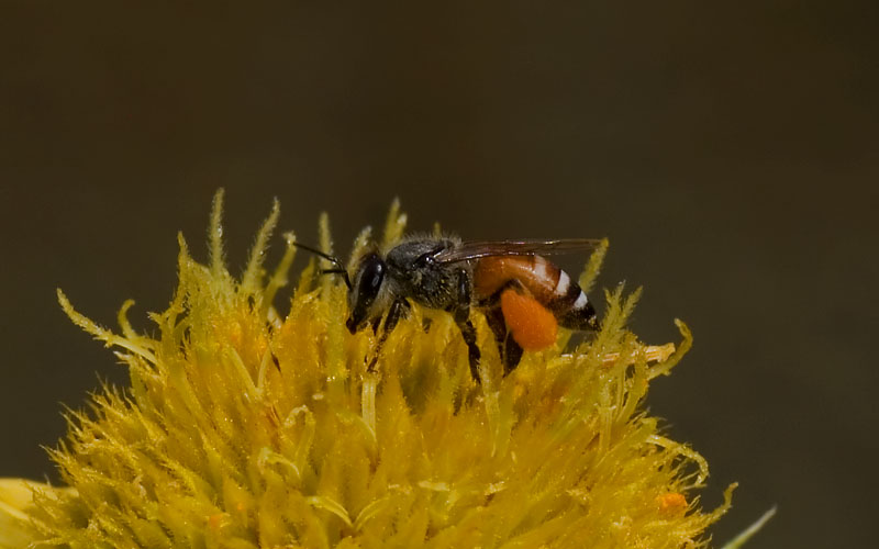 Another tiny honey bee from our garden in Bangalore city, India. The color of the pollen sacks in this bee is bright orange always...